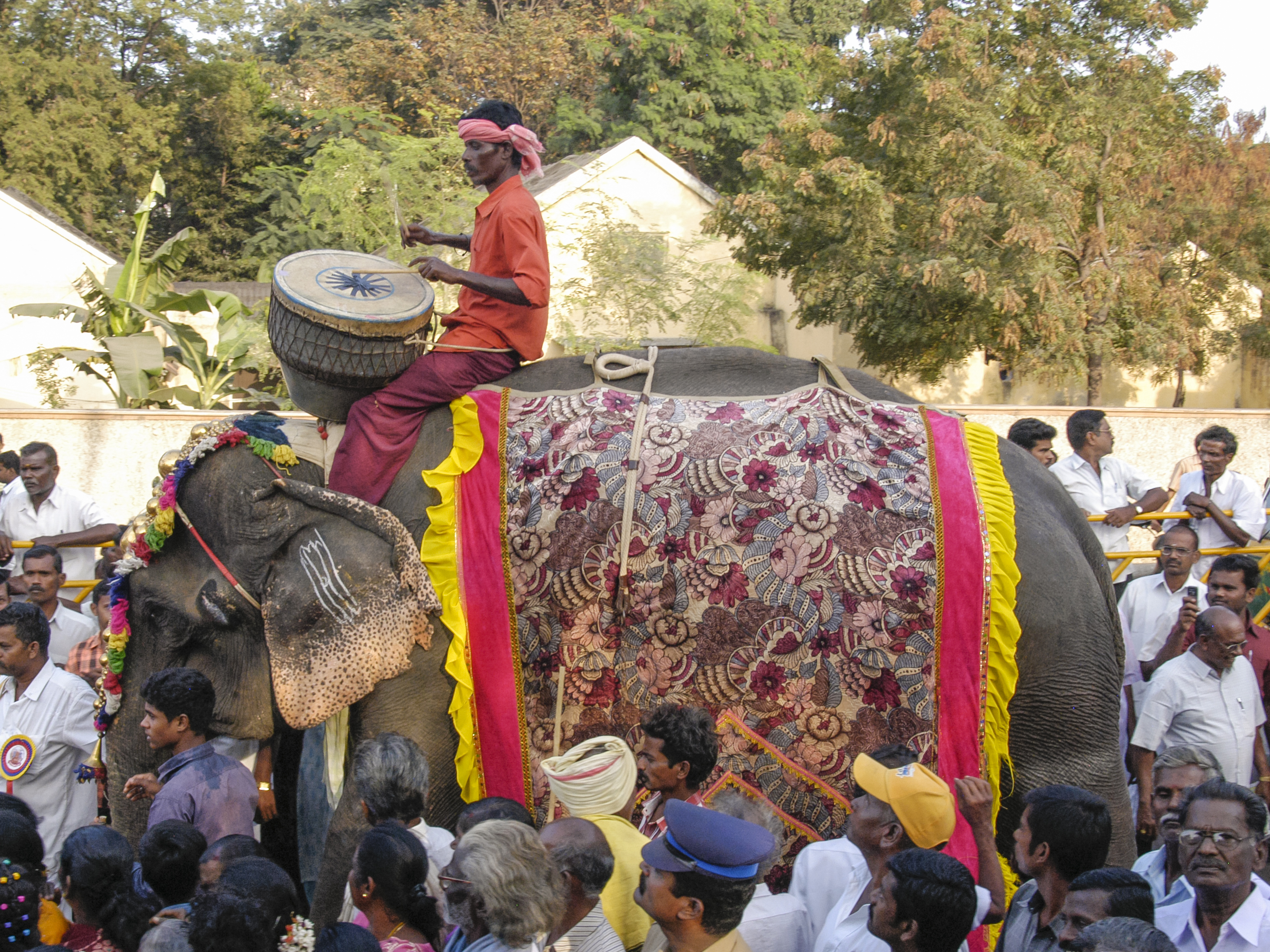 Man Riding an Elephant in a Pongal Festival Parade in Namakkal, Tamil Nadu